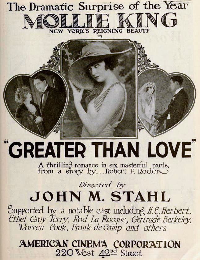 Ad for the American film Greater Than Love (1919) with Mollie King and Holmes Herbert, on page 1905 of the June 28, 1919 Moving Picture World.